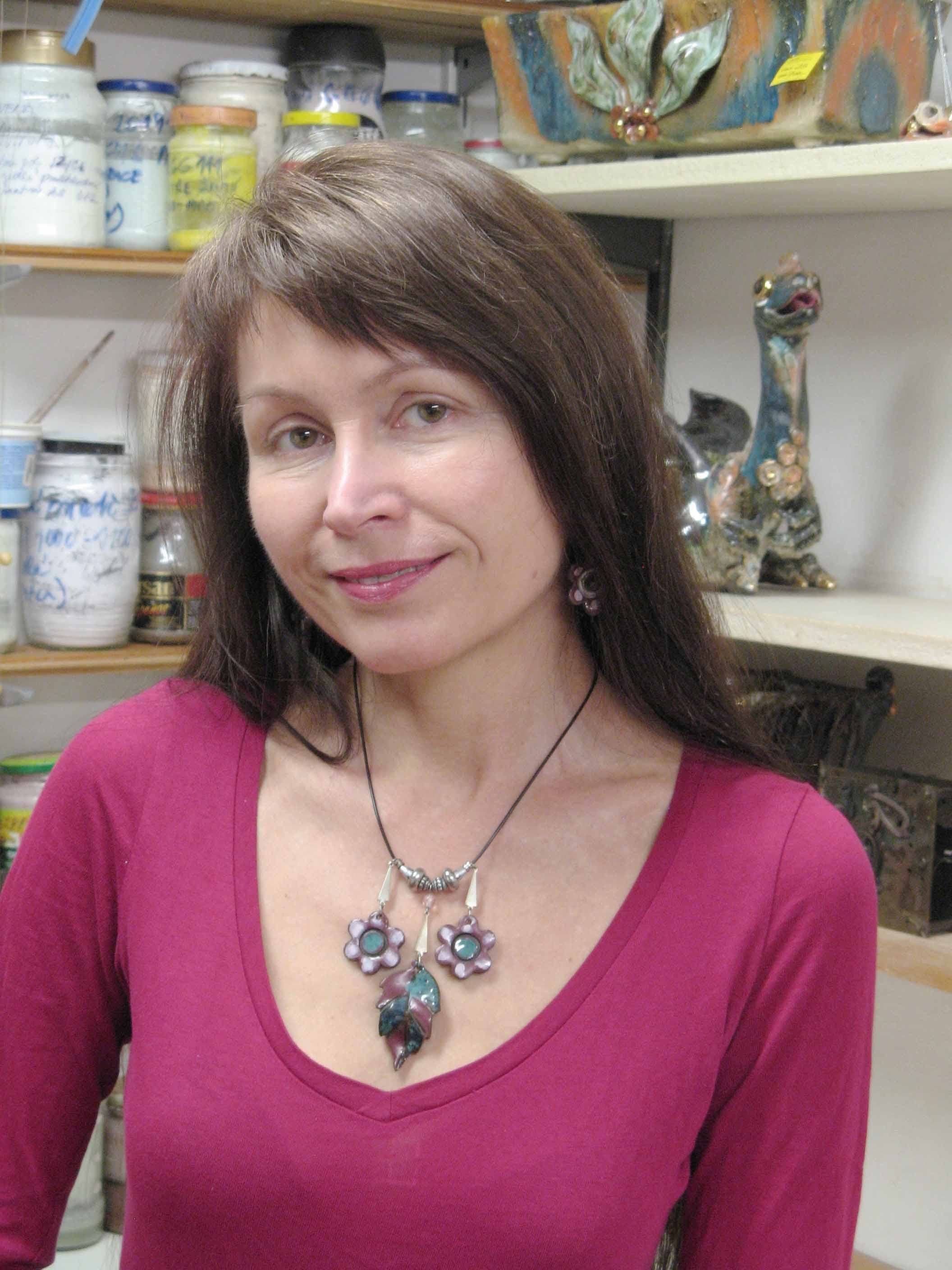 Markéta Přibylová, ceramist